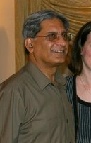 Aitzaz Ahsan. Original caption (before cropping): "The Congresswoman with Aitzaz Ahsan and his wife. Ahsan is the lead counsel of the legal team of recently-removed Supreme Court Chief Justice Iftikhar Chaudhry."